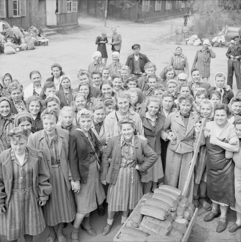 Germany Under Allied Occupation A group of Russian women and girls newly arrived at No.17 Displaced Persons Assembly Centre, Hamburg Zoological Gardens.